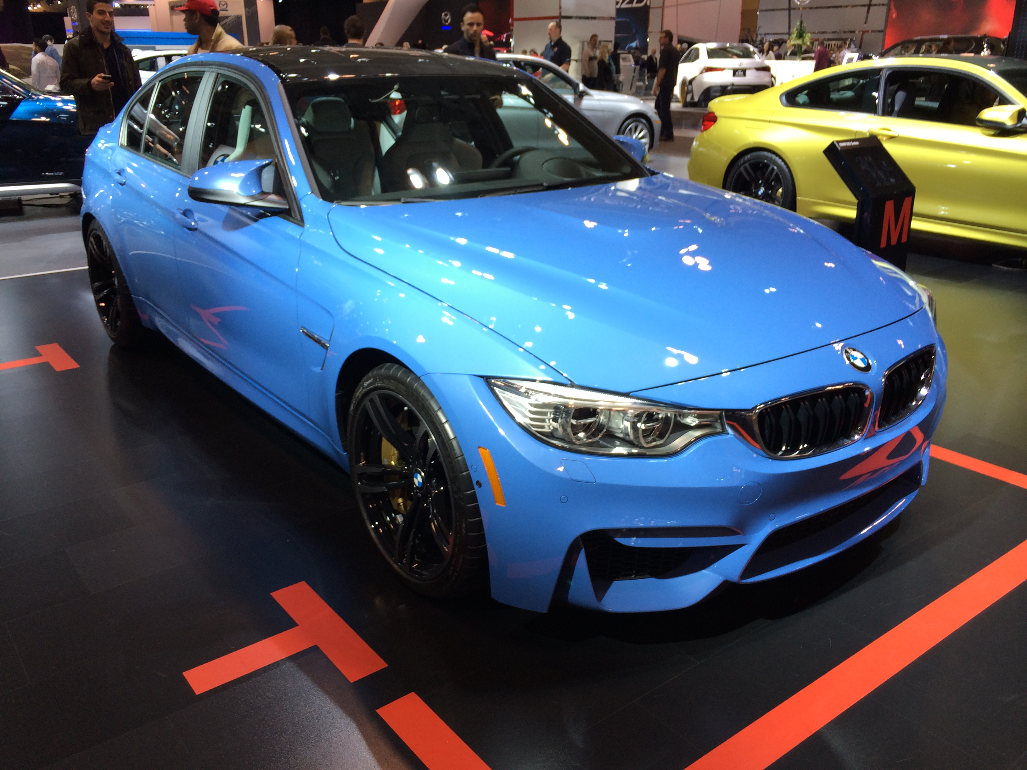 Blue BMW F30 M3 at the 2014 Toronto Auto Show